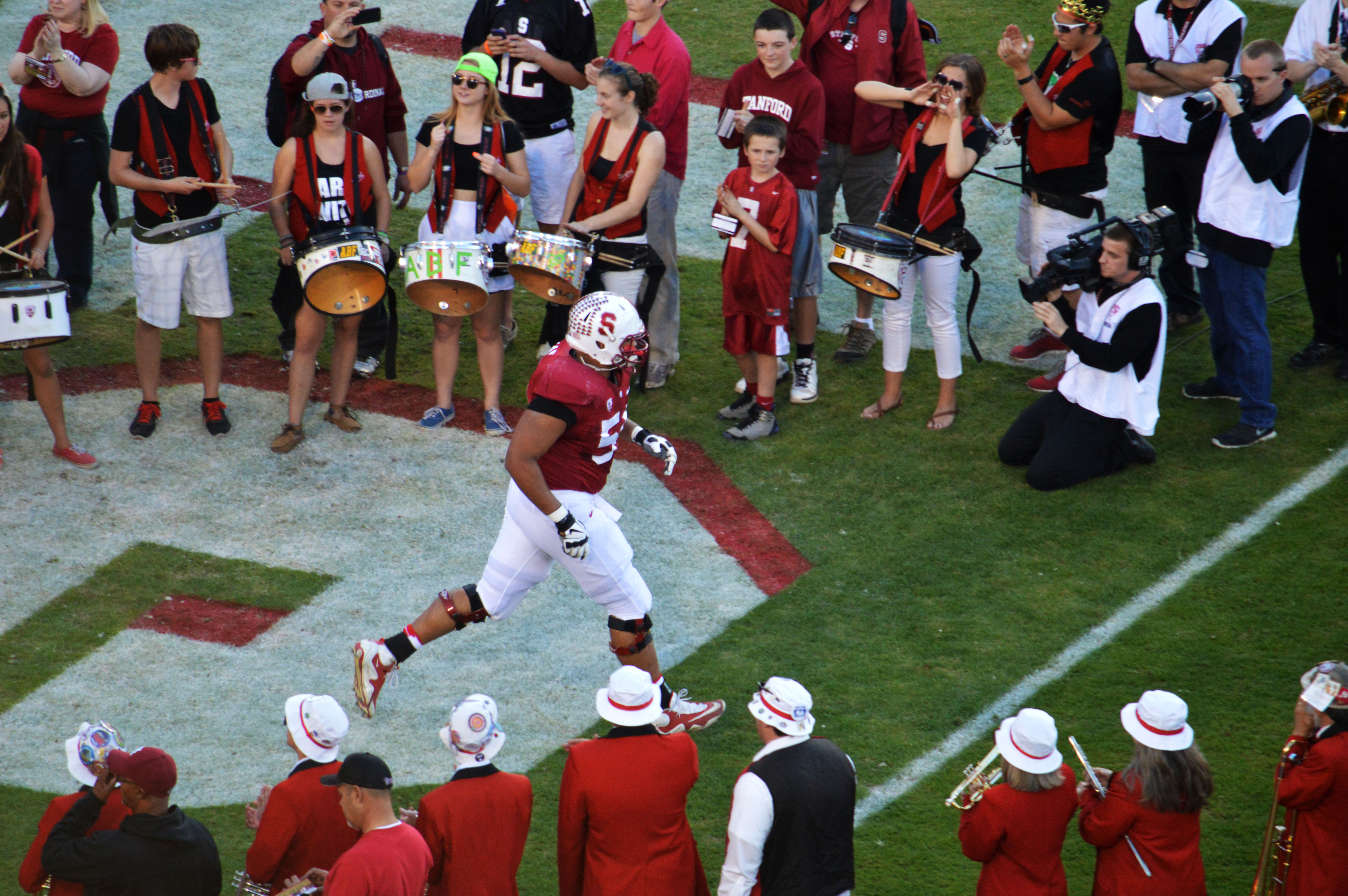 Former Stanford Cardinal OG David Yankey